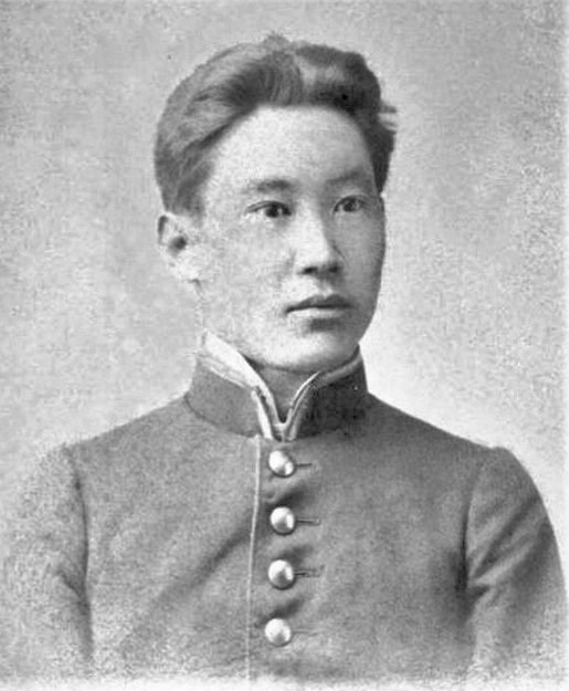 Nomto Ochirov, kalmyk antripologist and historian